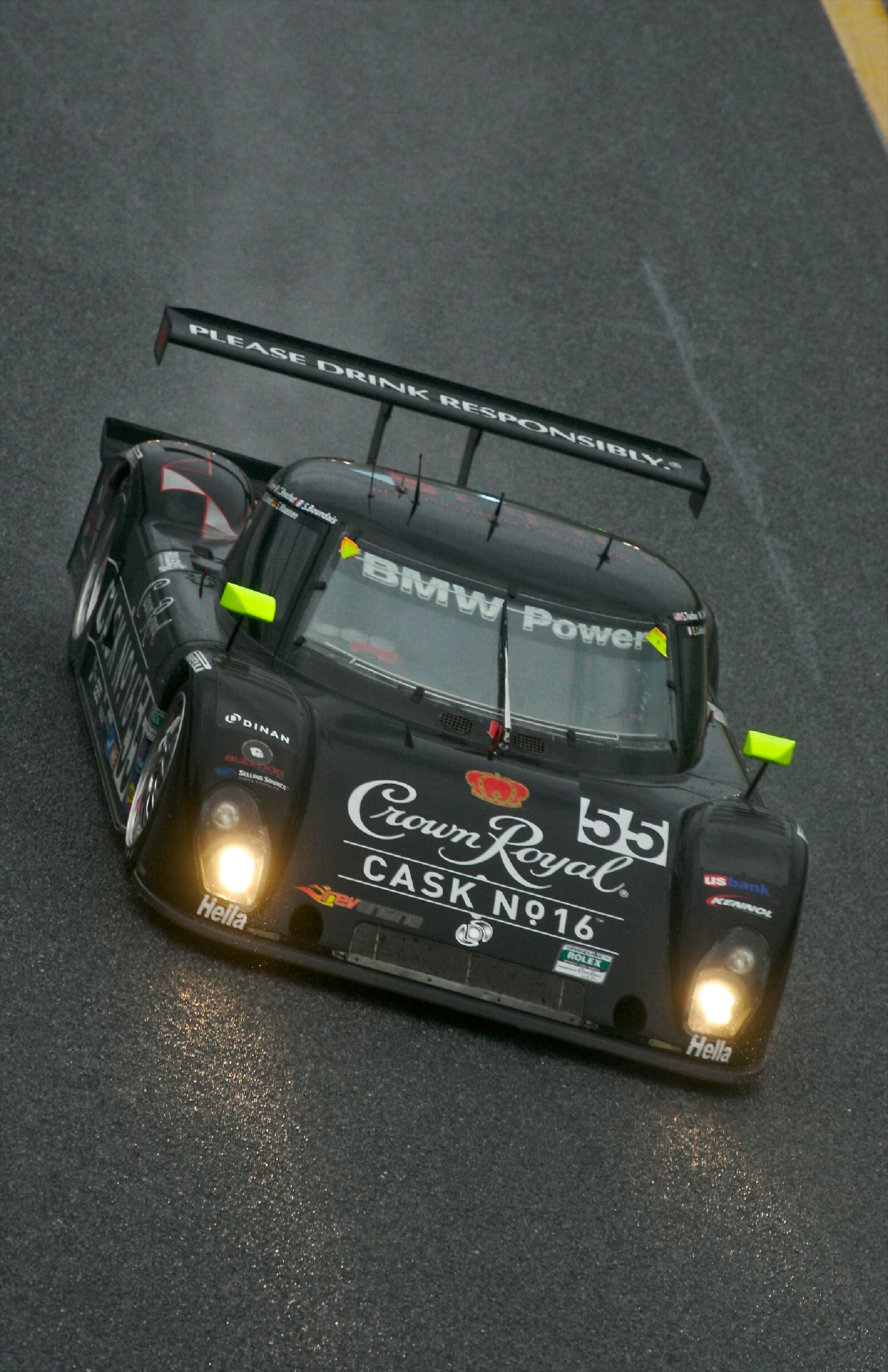 Scott Tucker at the 2010 Rolex 24-hours of Daytona